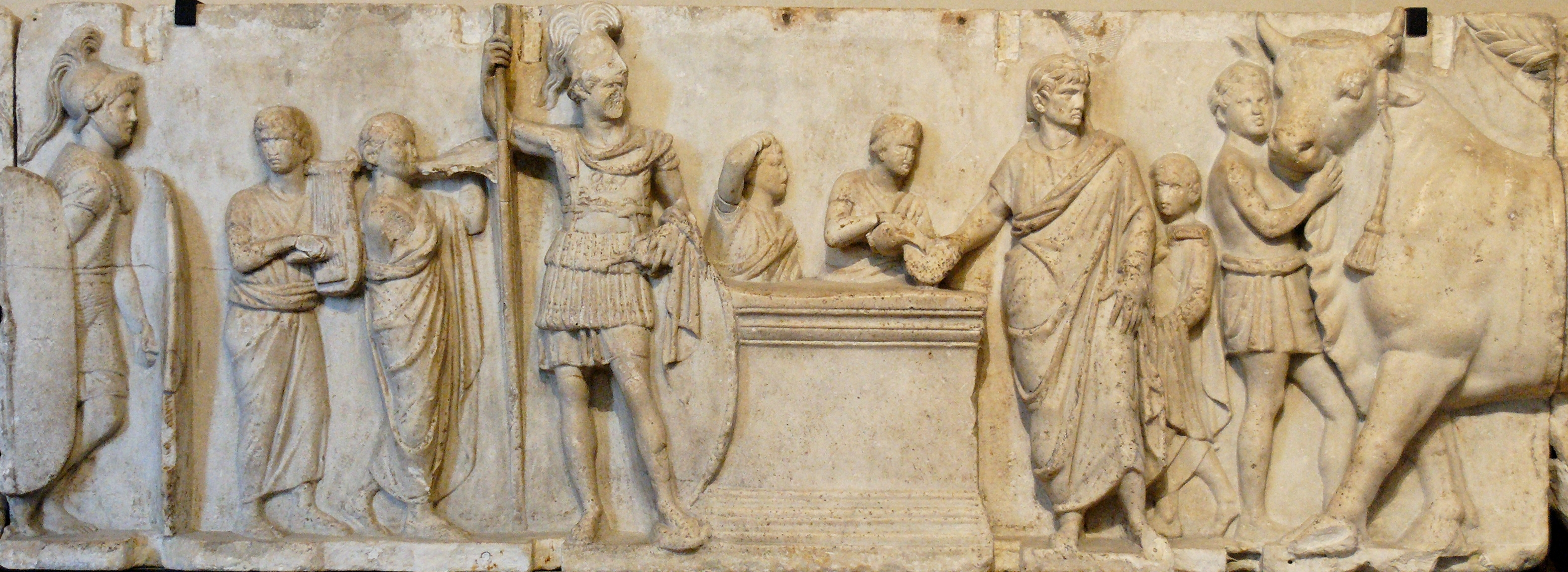 Sacrifice scene during a census: Midde part of a plaque from the Altar of Domitius Ahenobarbus known as the “Census frieze”. Marble, Roman artwork of the late 2nd century BC. From the Campo Marzio, Rome.